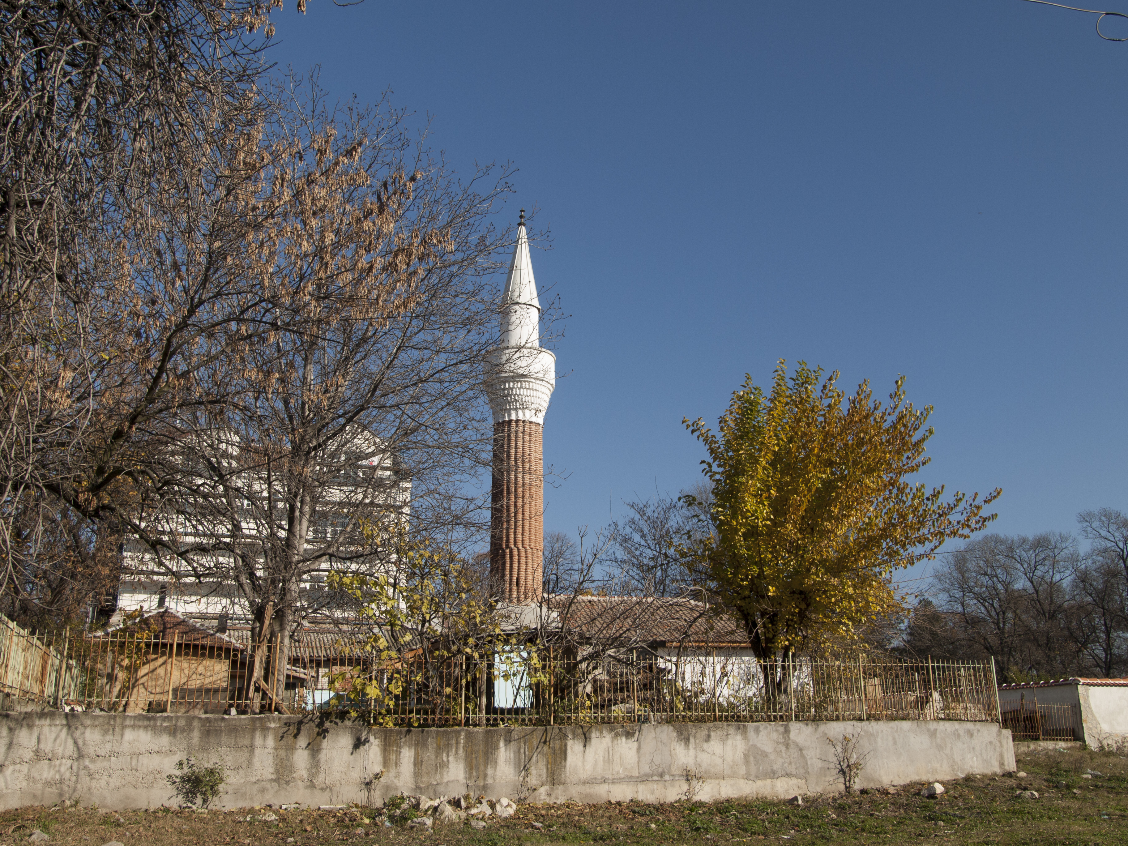 Hisarya мosque, 1464